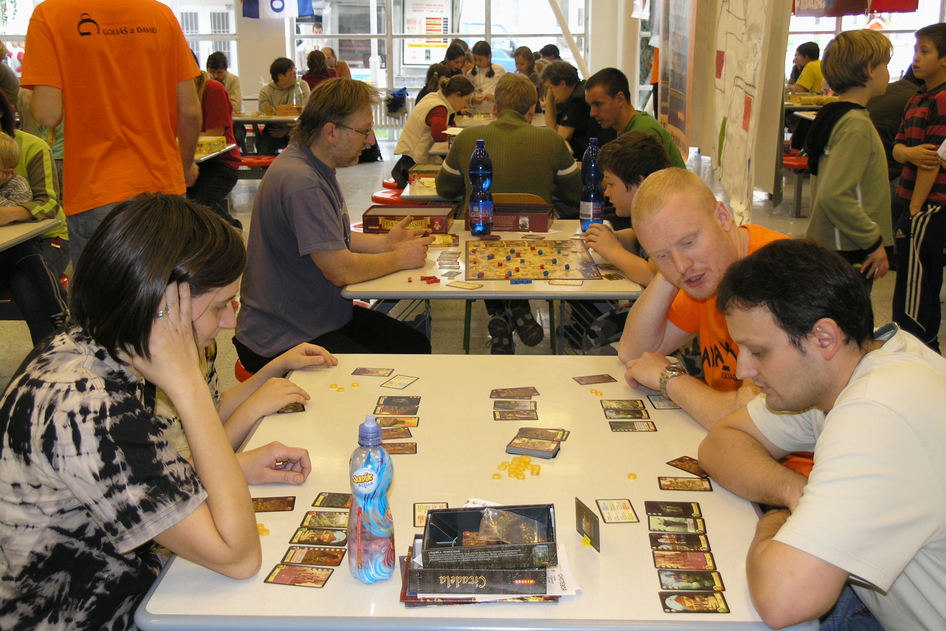 Personality rights warning Although this work is freely licensed or in the public domain, the person(s) shown may have rights that legally restrict certain re-uses unless those depicted consent to such uses. In these cases, a model release or other evidence of consent could protect you from infringement claims.